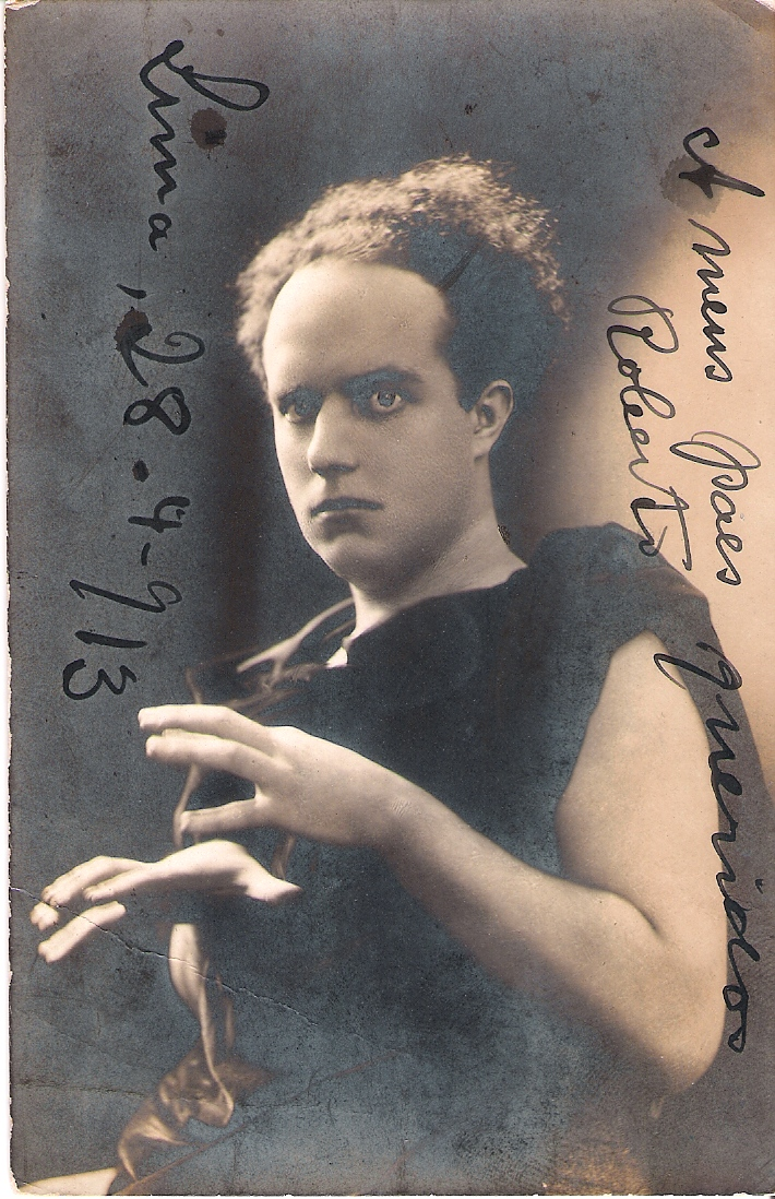 Roberto Viglione (Lima, 28 de Setembro de 1913)